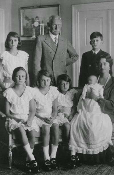 The family in 1935, after Princess Sophie's birth.